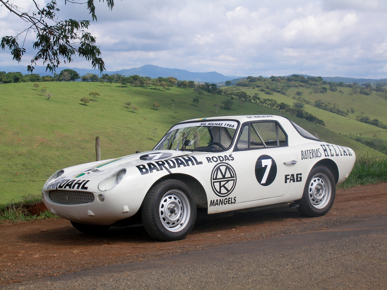 Produced in Brazil by speciality car maker Rino Malzoni for DKW-Vemag racing team. It has fiberglass body and a two stoke, three-cylinder, 1.000cm³ engine.